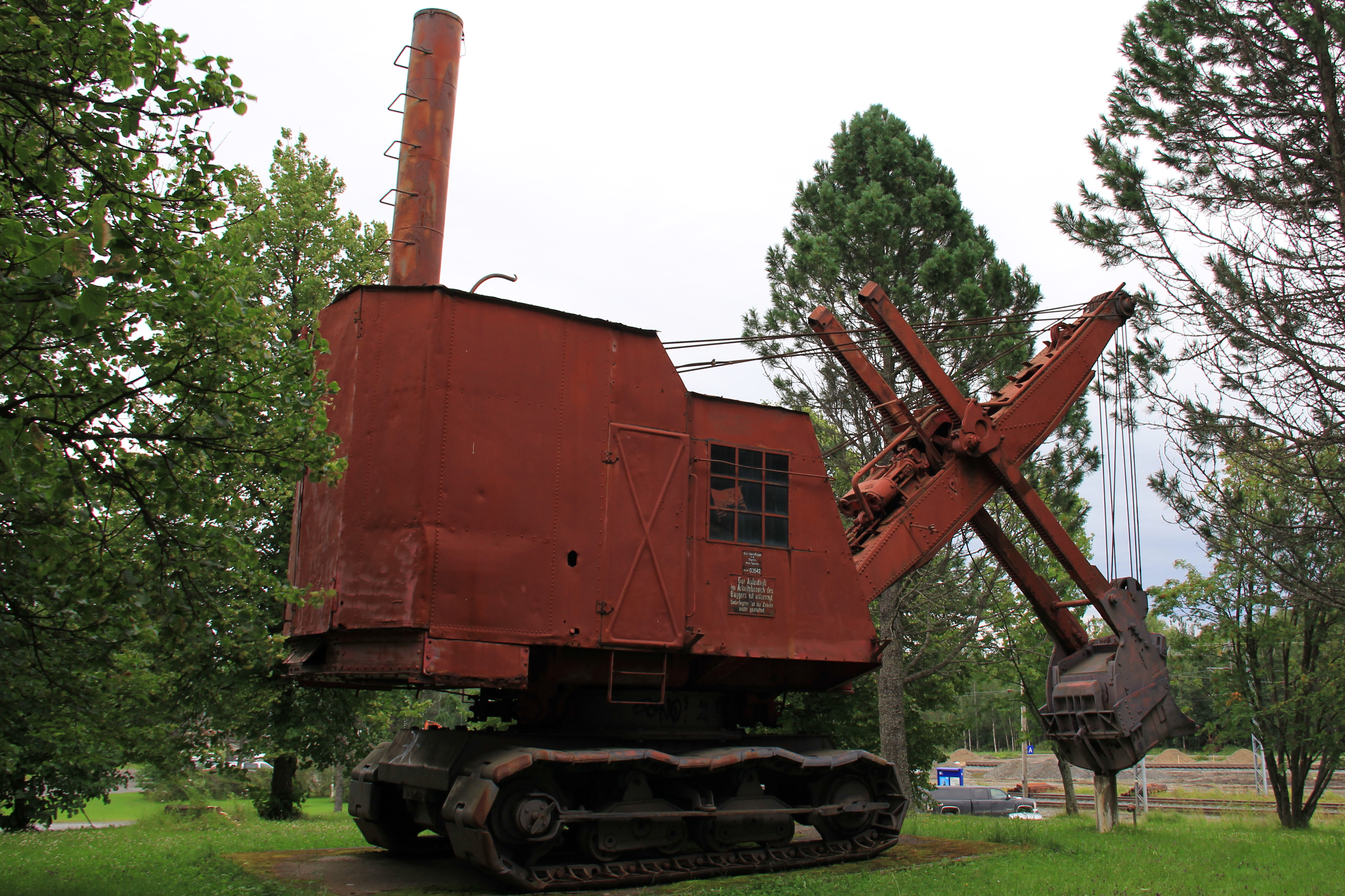 Orenstein & Koppel steam shovel near Kitee railway station, Kitee, Finland.